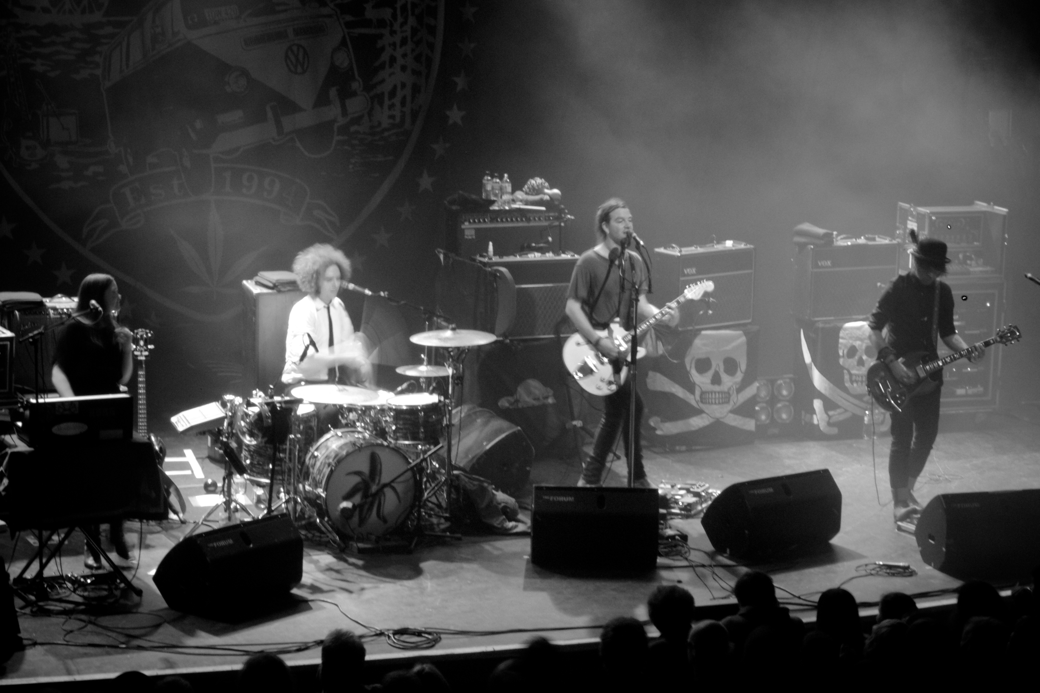 Kentish Town Forum, 21st April 2012